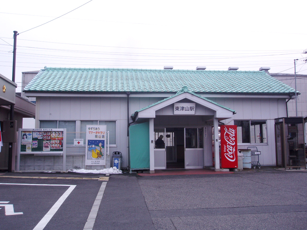 West Japan Railway Kishin Line&Inbi Line Higashi-Tsuyama Station 西日本旅客鉄道 姫新線＆因美線 東津山駅駅舎